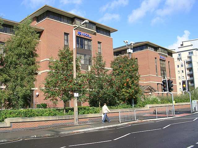 HBOS plc - Lovell Park Road